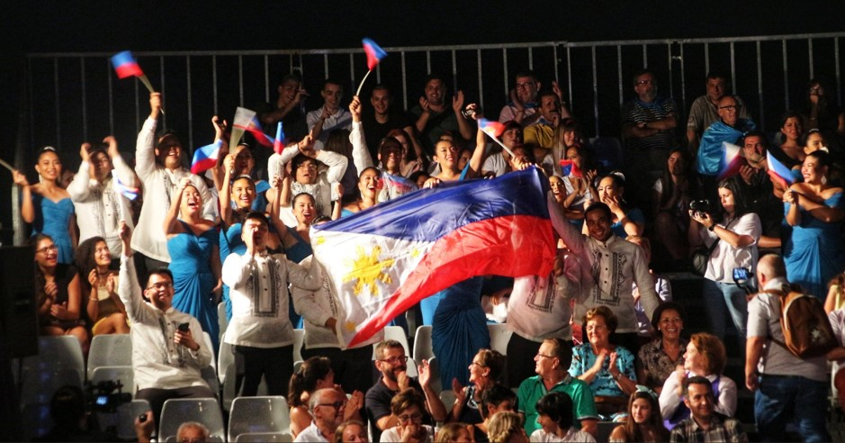 Jubilant University of the Philippines Singing Ambassadors choir members raising the Philippine flag after the UP Singing Ambassadors was announced grand champion of the event. (Madrid PE photo)